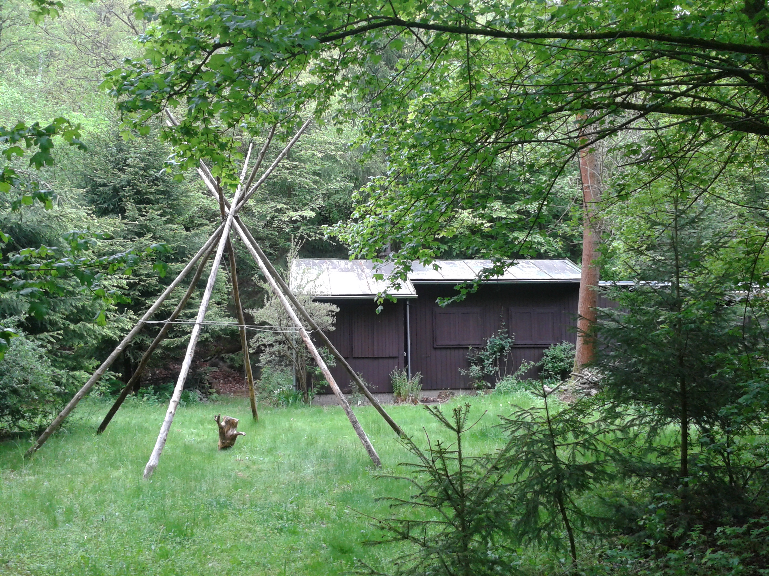 Tramp settlement Na Place in Břežanské údolí in the cadastre of village Točná